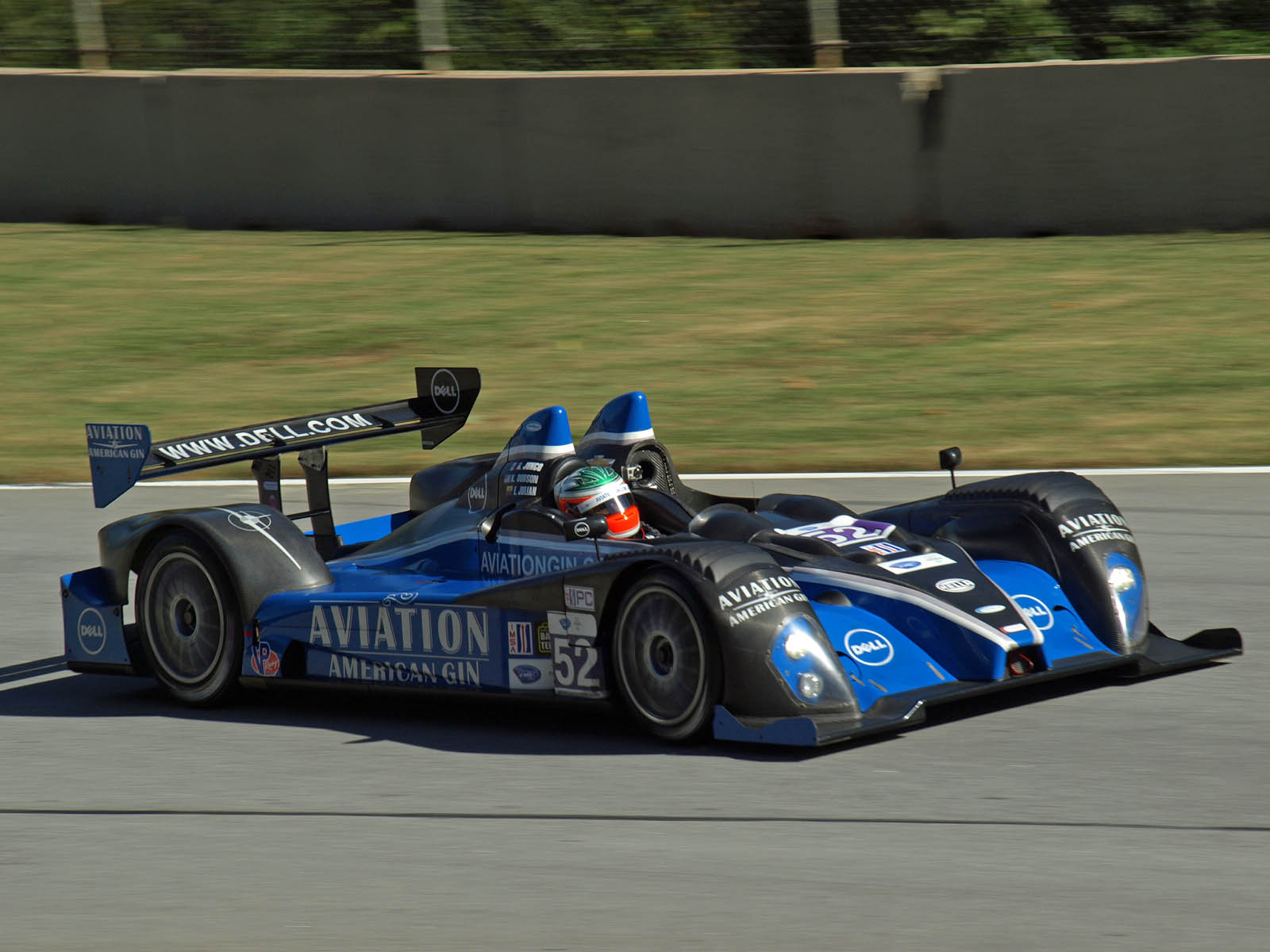 Rudy Junco, Jr., in the PR1 Mathiasen Motorsports Oreca FLM09-Chevrolet during qualifying for the 2012 Petit Le Mans